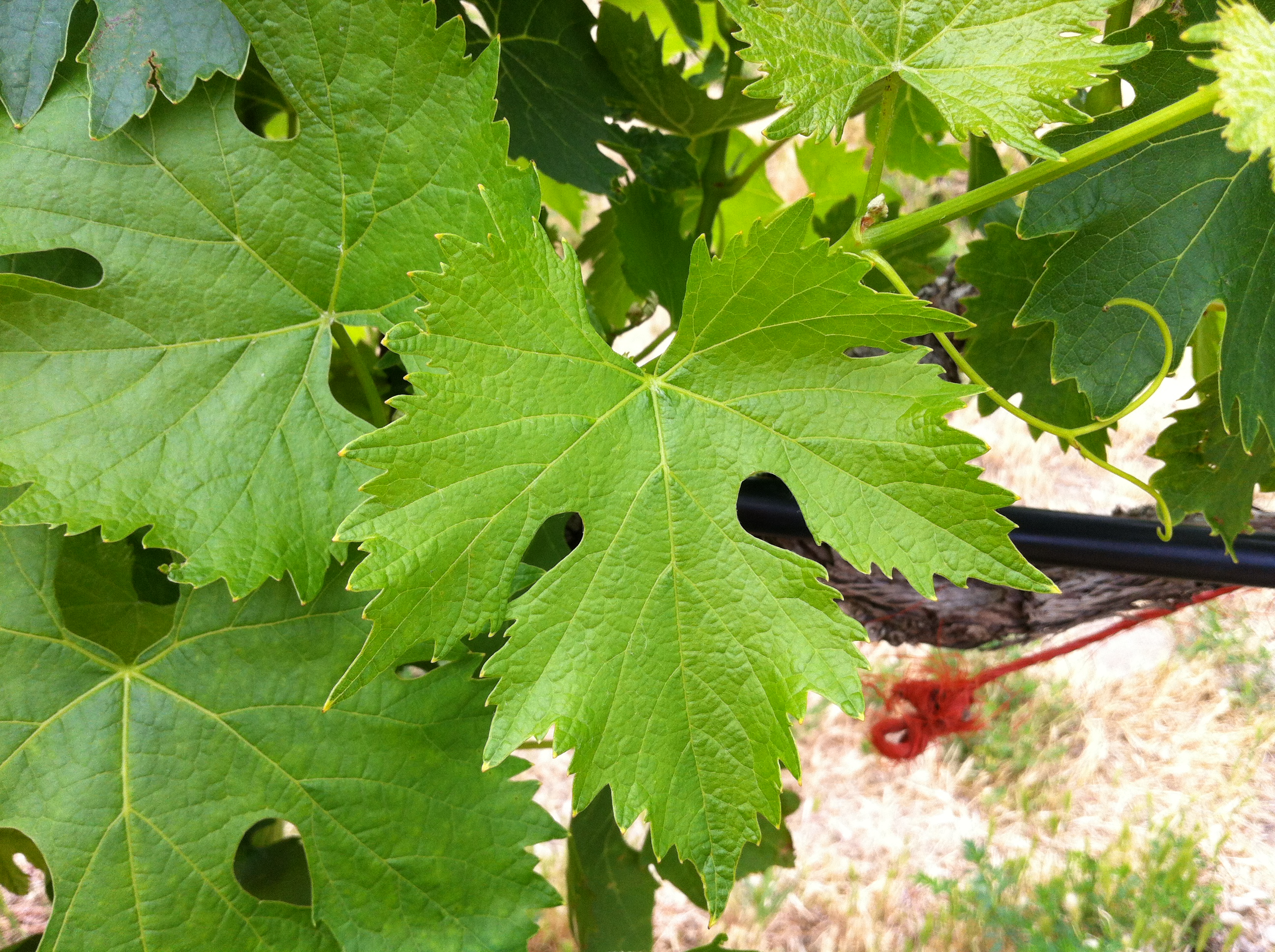 Close up of a Sangiovese leaf